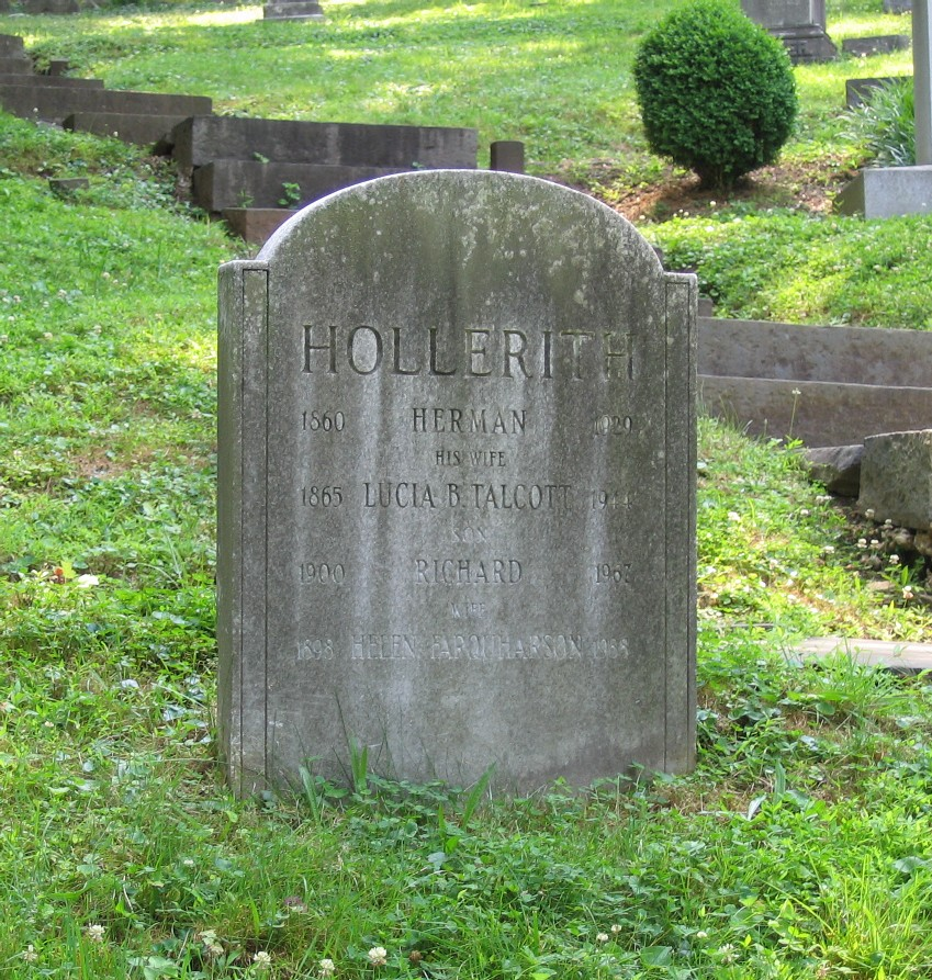 The grave of Herman Hollerith, the punched-card pioneer